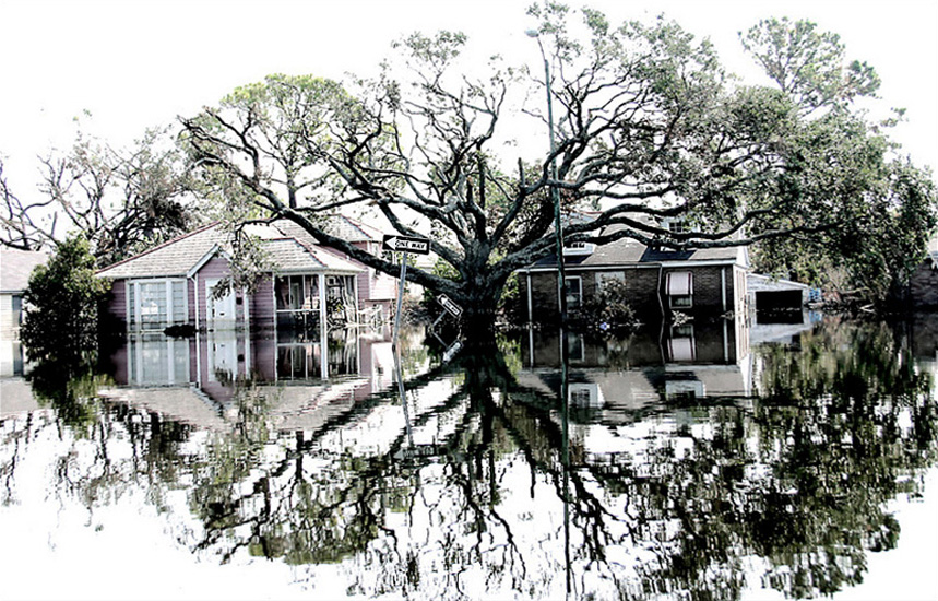 The flood of New Orleans from a boat on Canal Street (early September, 2005). Photo by Gary Mark Smith.